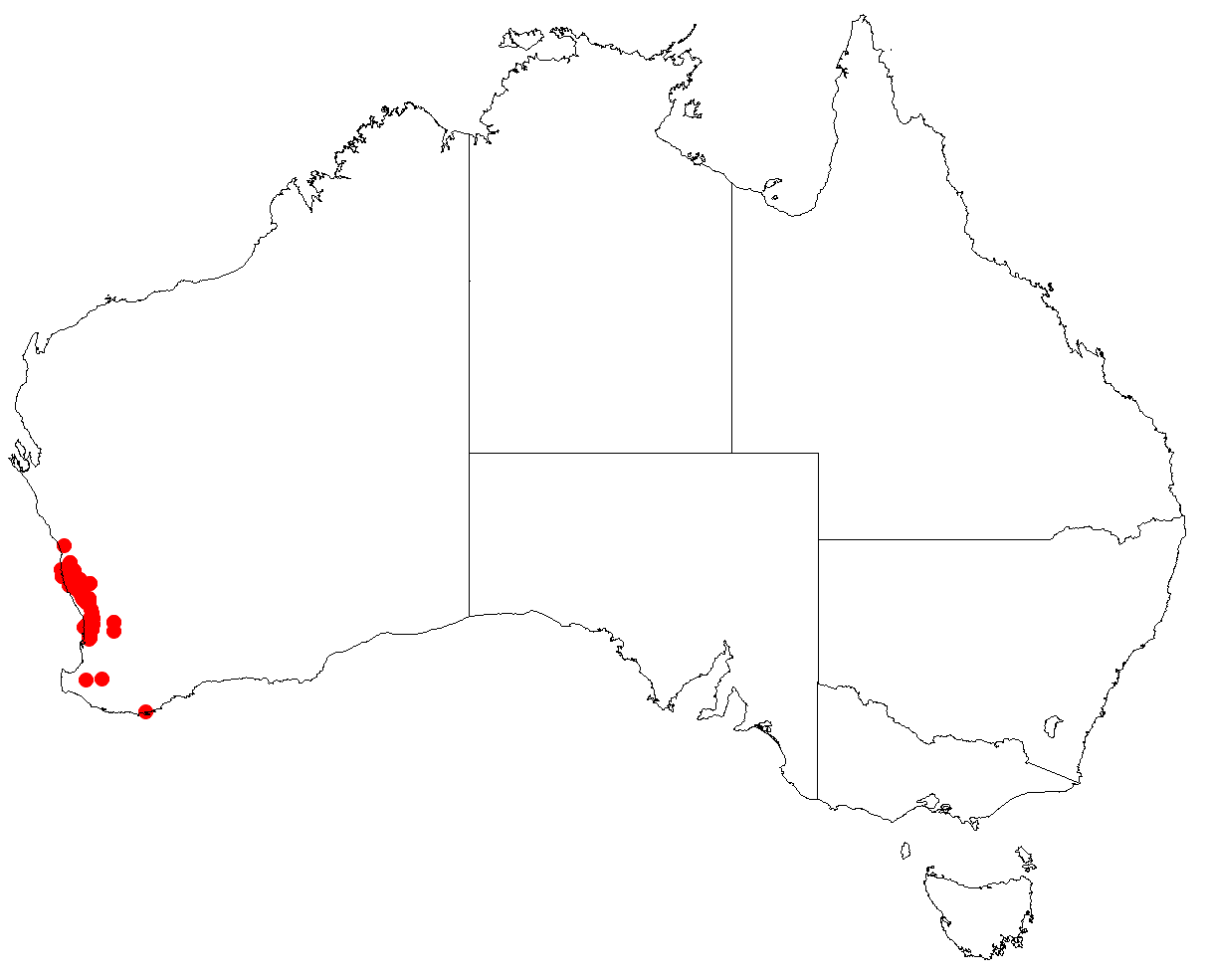 Blancoa canescens Map of collections from AVH: Australia's Virtual Herbarium data (CC) downloaded 12 May 2017